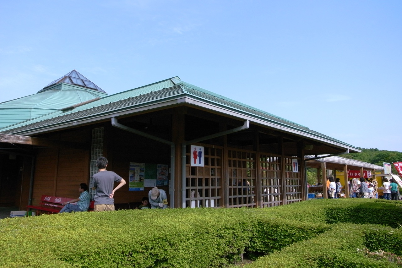 Michinoeki Fureai Park Kimitsu in Kimitsu, Chiba, Japan.